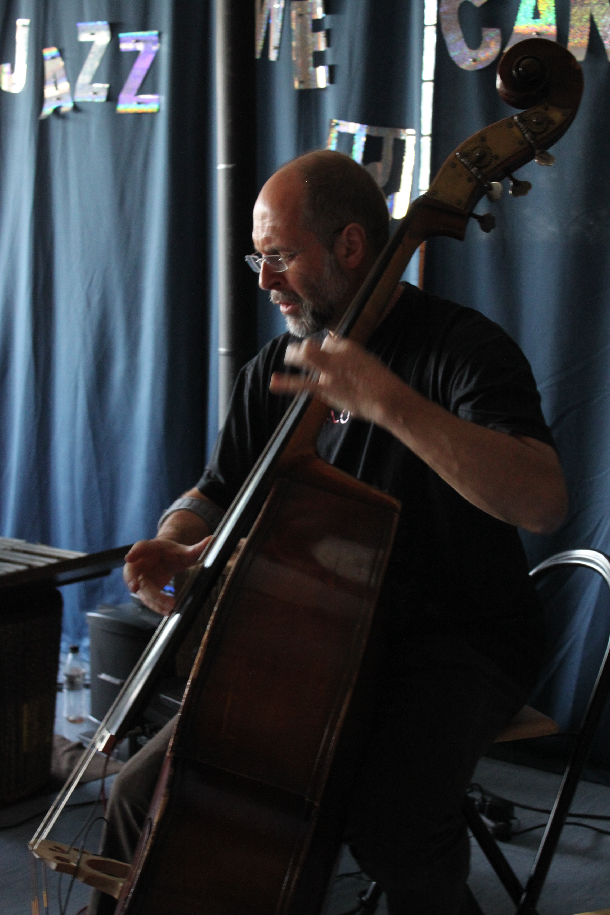 Christoph Niemann in concert with Triologic in Bad Marienberg (Westerwald)